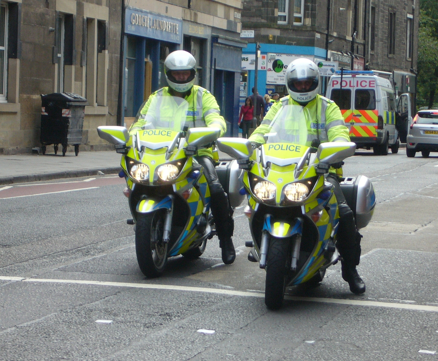 Motorcycle police in Gorgie Road, Edinburgh